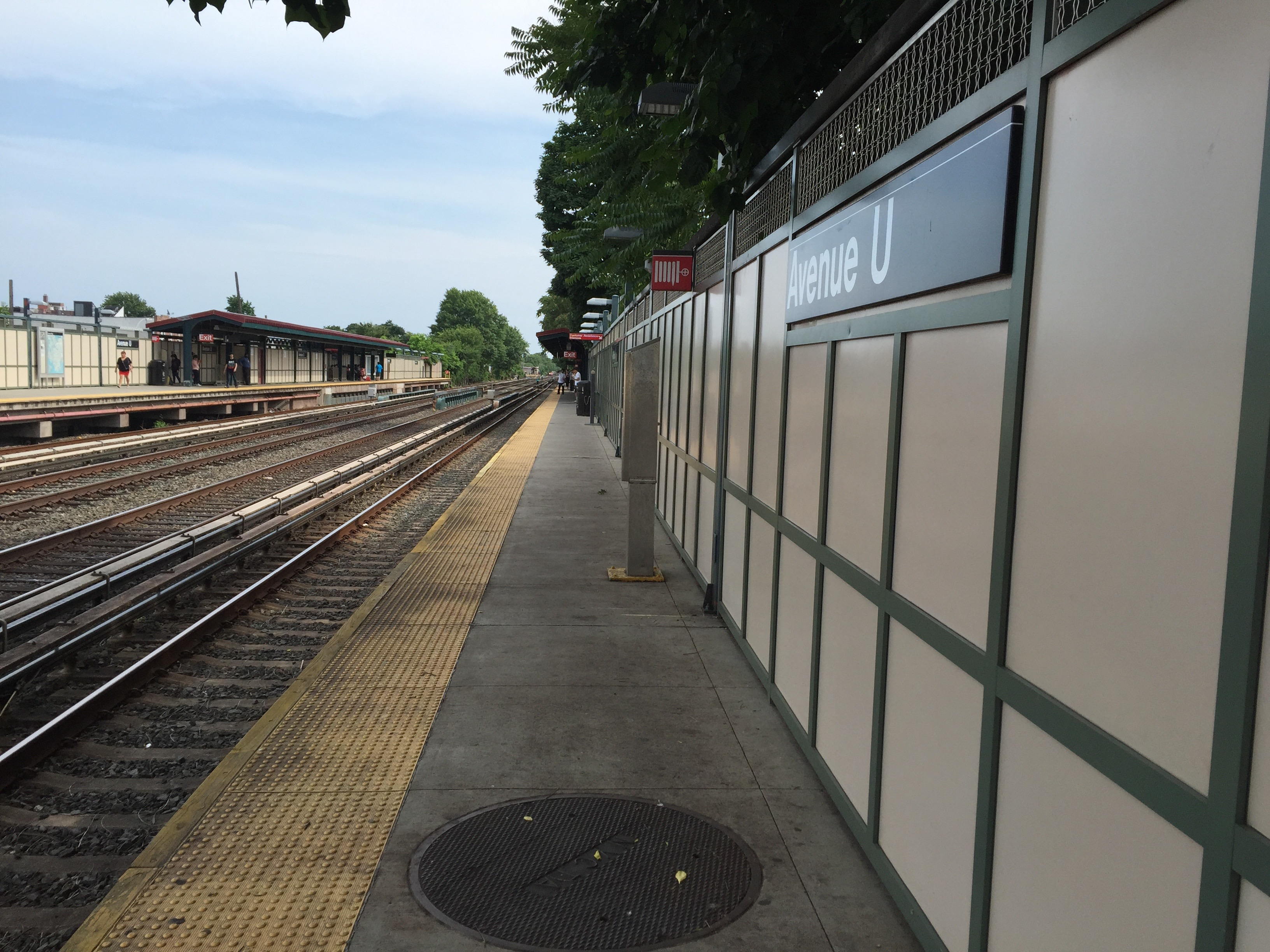 Coney Island platform at Avenue U on the Q line.